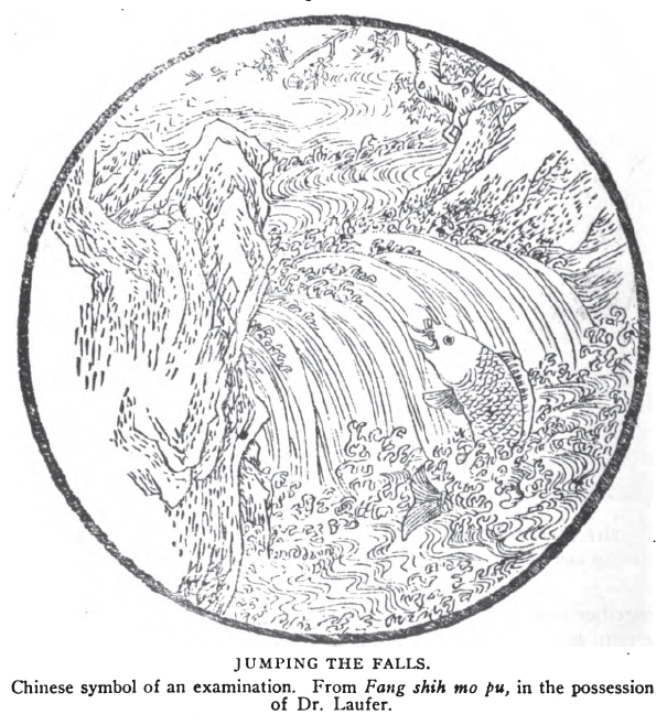 In Chinese legend, carp were said to swim high upstream in the Yellow River to the Dragon’s Gate. Those few who managed to jump the gate were transformed into dragons. In Confucian China, this is used to represent students who passed the scholar's exam. It is used, in general, as a symbol of a great life achievement achieved through hard work and perseverance.